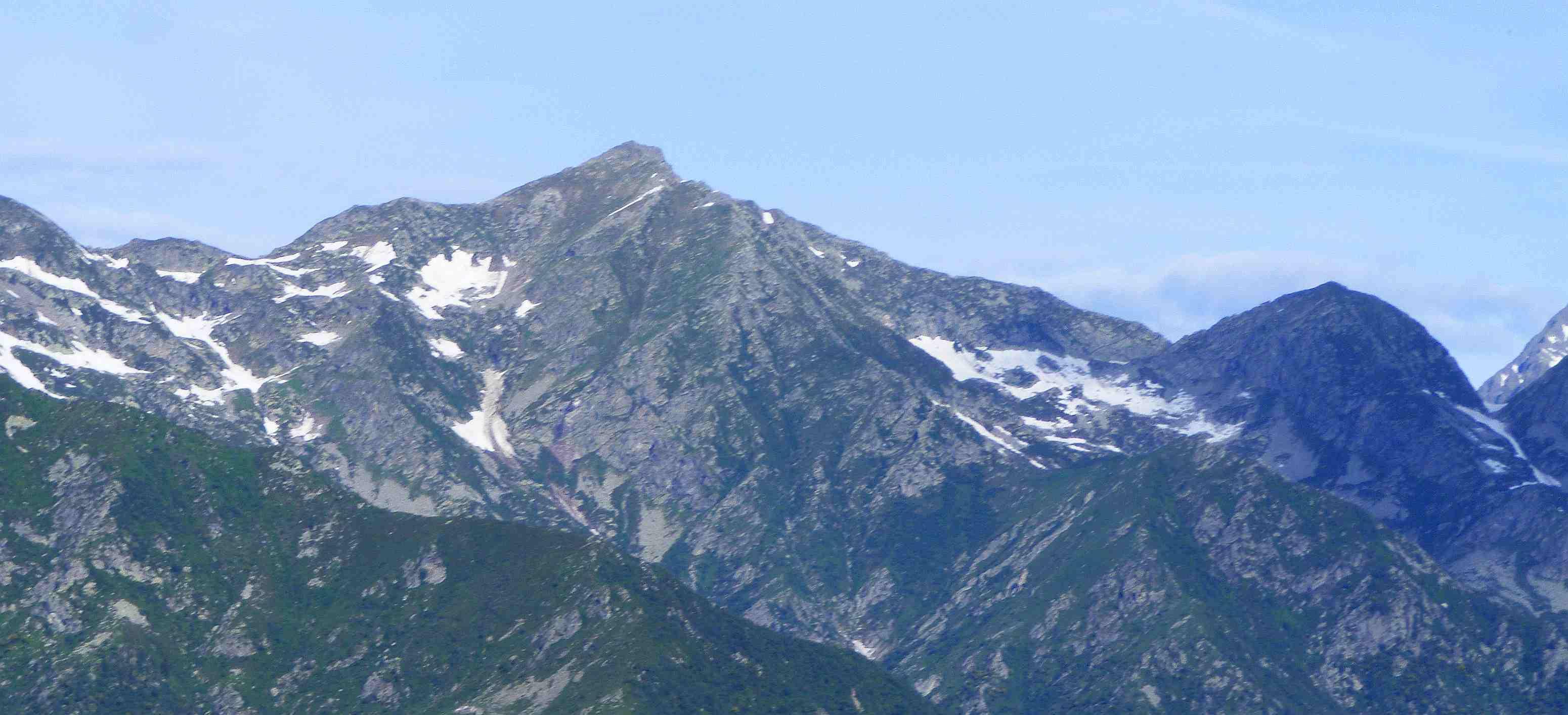 Mount Cresto from the ridge between Oriomosso and Cima del Bonom; on the right Punta and Colle della Vecchia (BI, Italy)